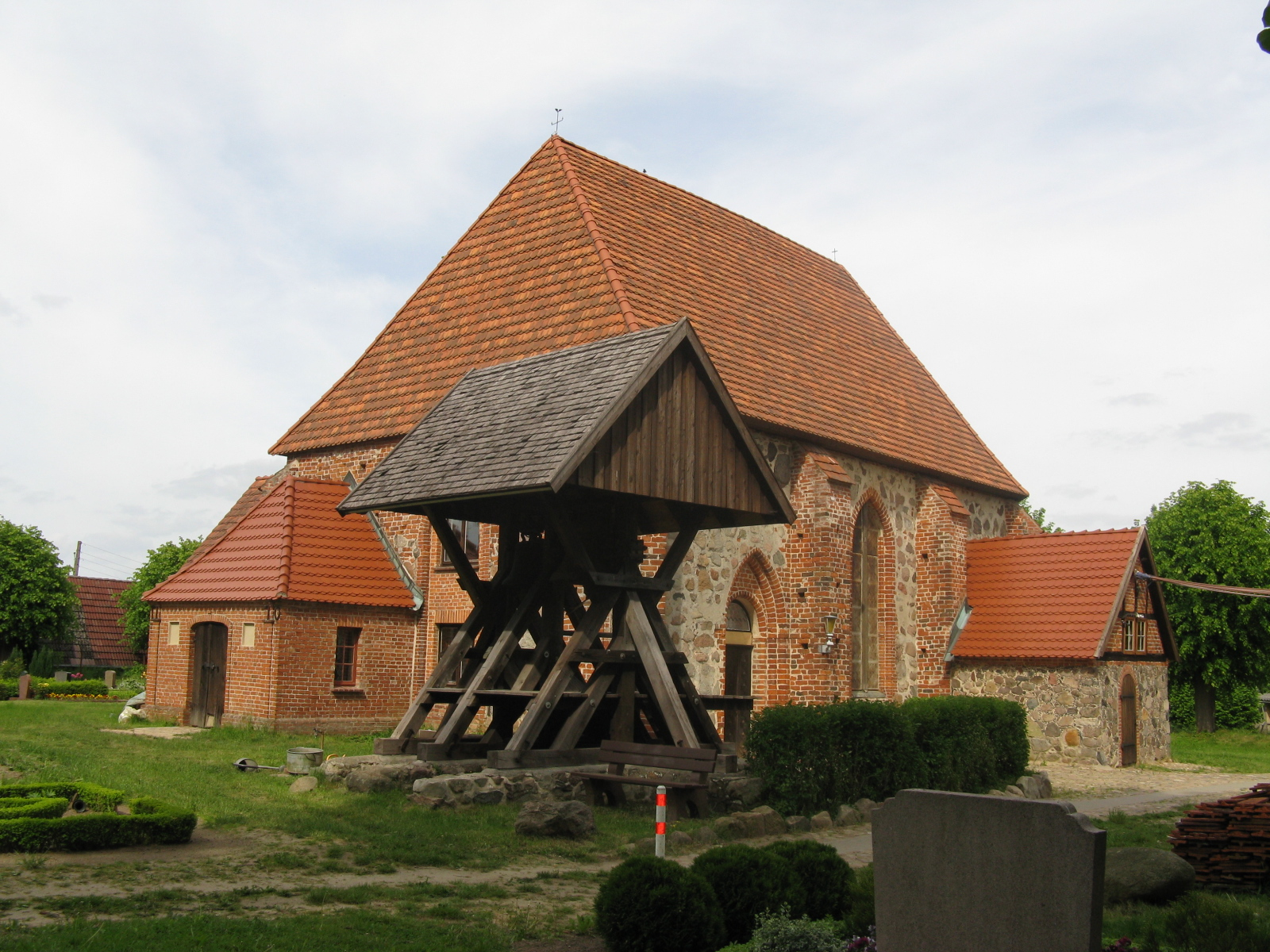 Church in Stralendorf, Mecklenburg-Vorpommern, Germany